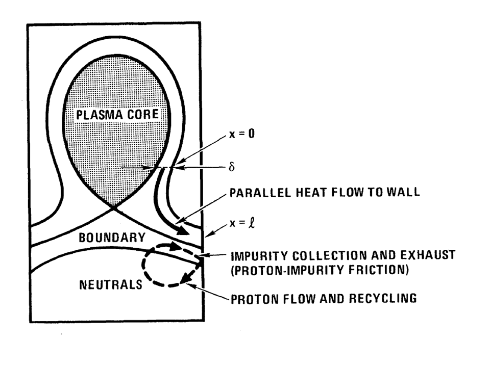 Scheme of a tokamak divertor, adapted from Fig.3 of Mahdavi, PRL 47, 1602 (1981)